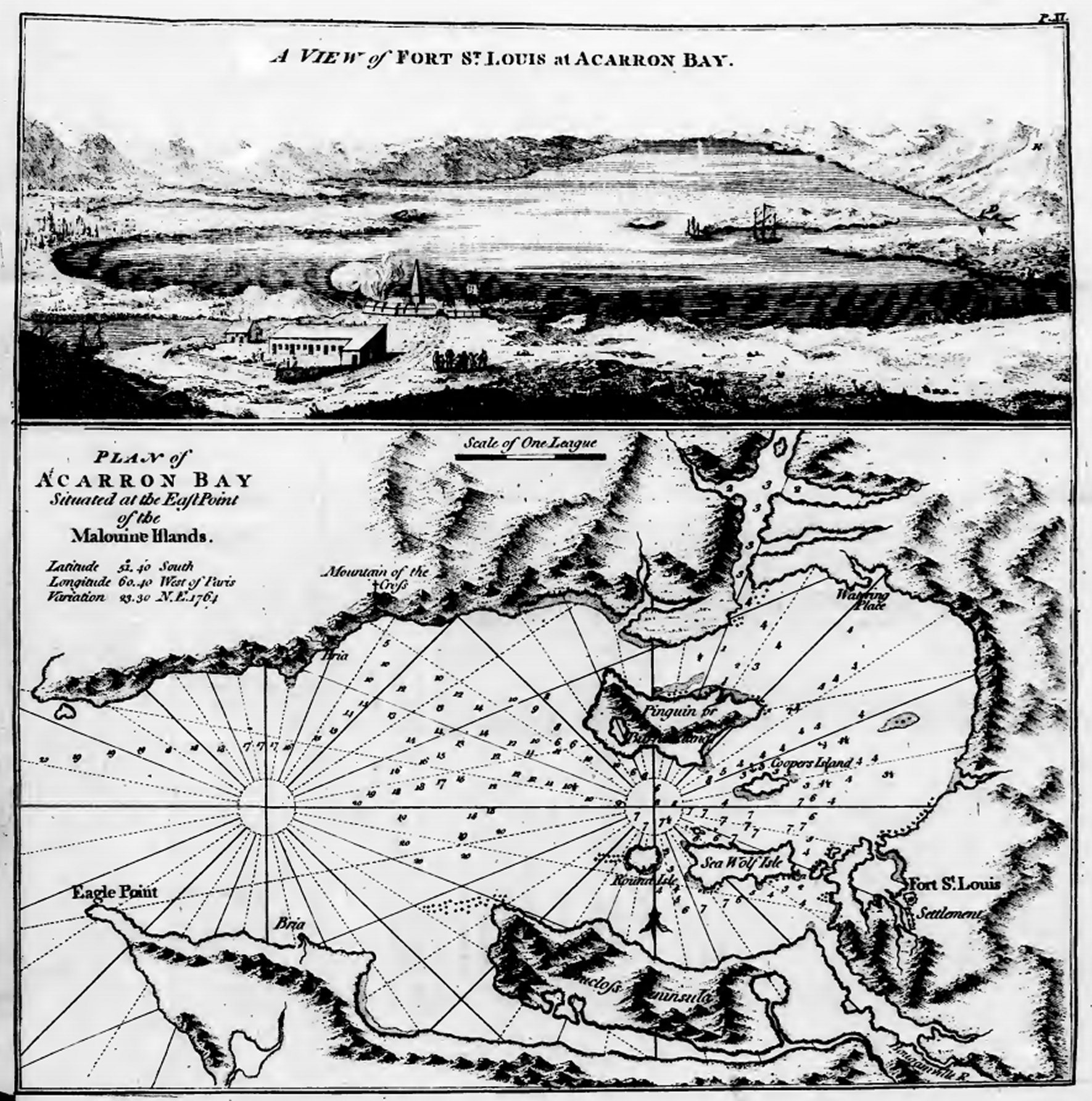 Port St Louis in Isles Malouines 1764